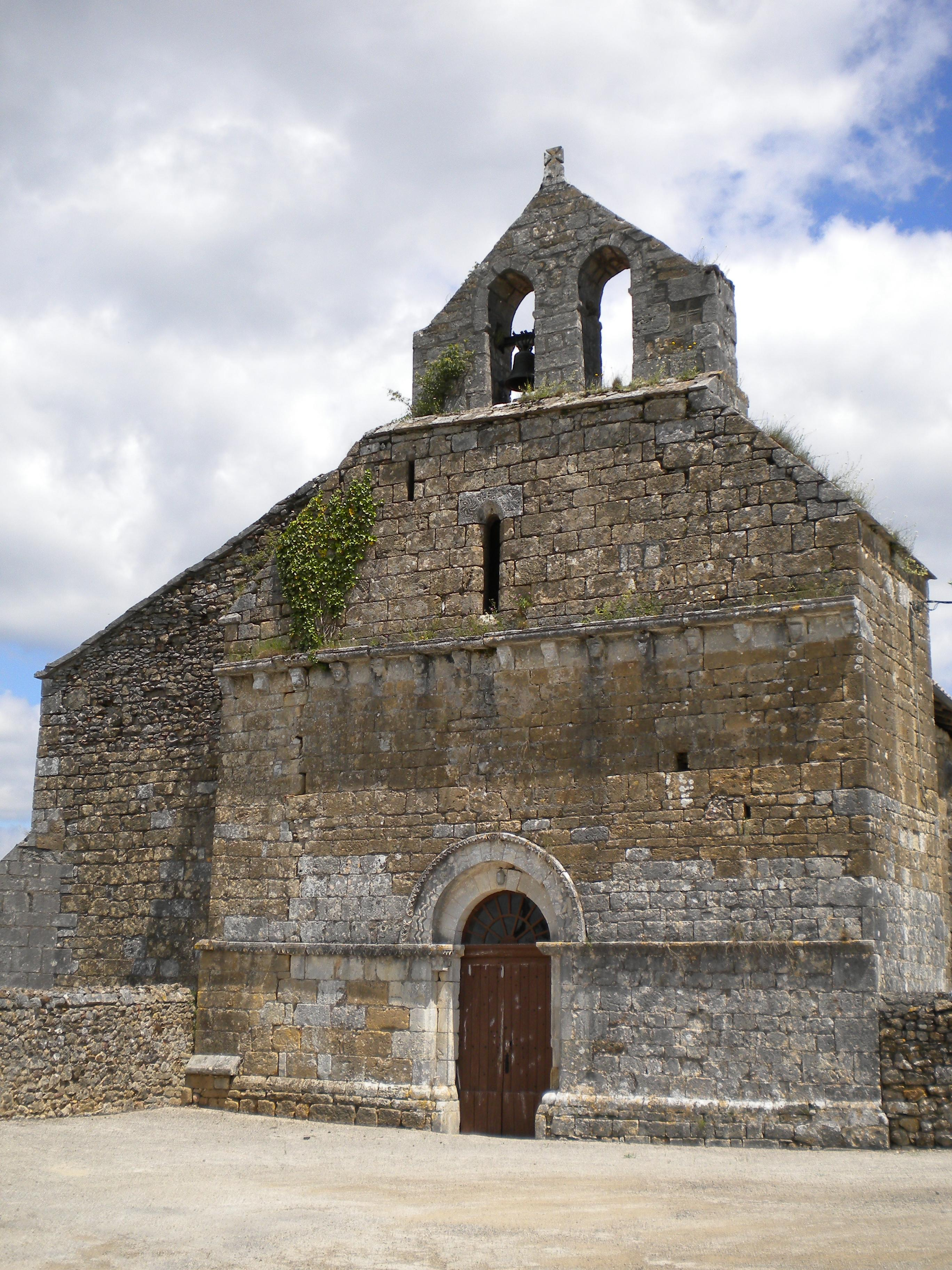 The church in Nontronneau, commune of Lussas-et-Nontronneau, Dordogne, France.